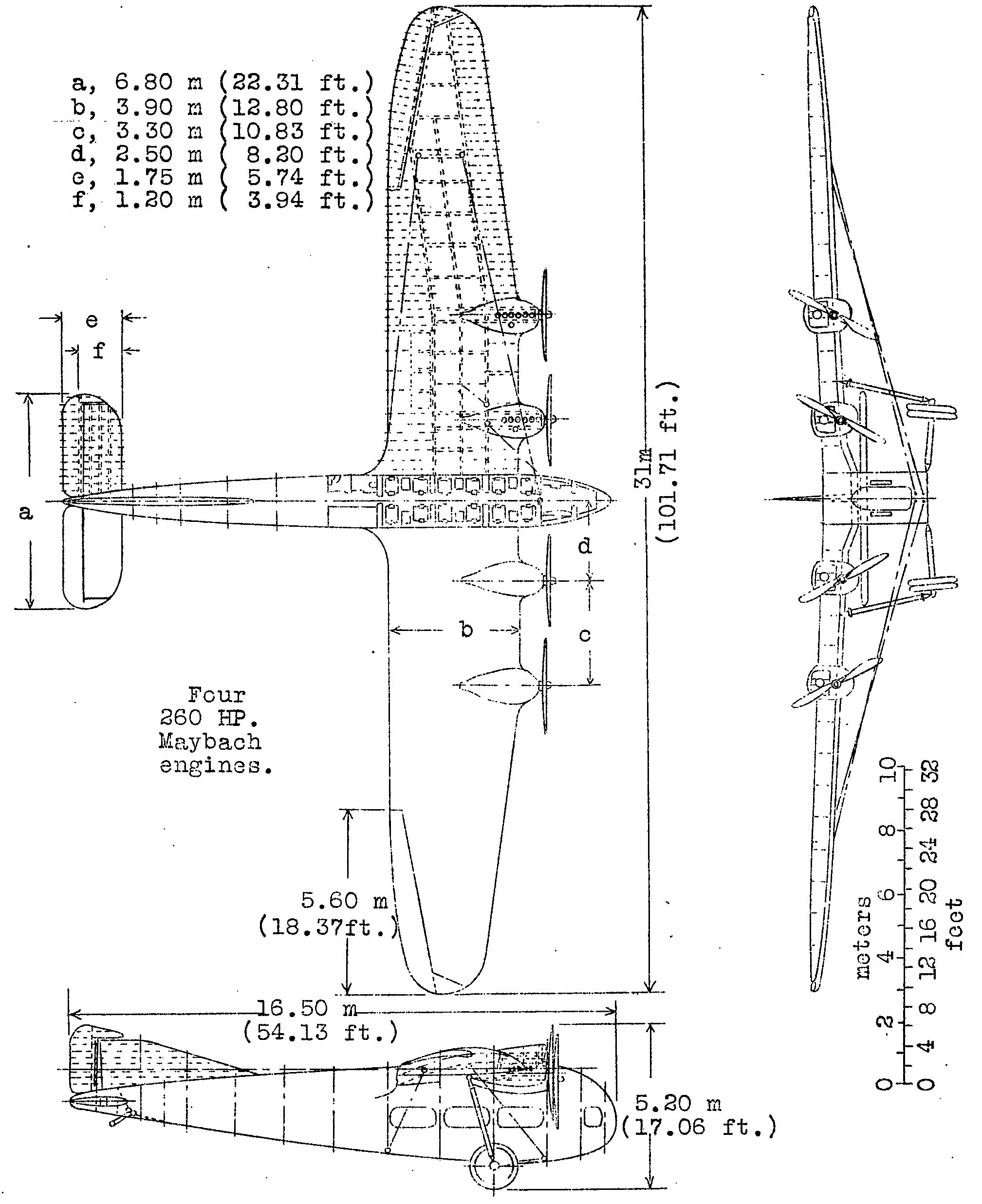 Zeppelin-Staaken E-4-20 3-view drawing from NACA-TM-478